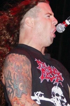 Jared Anderson of Morbid Angel singing